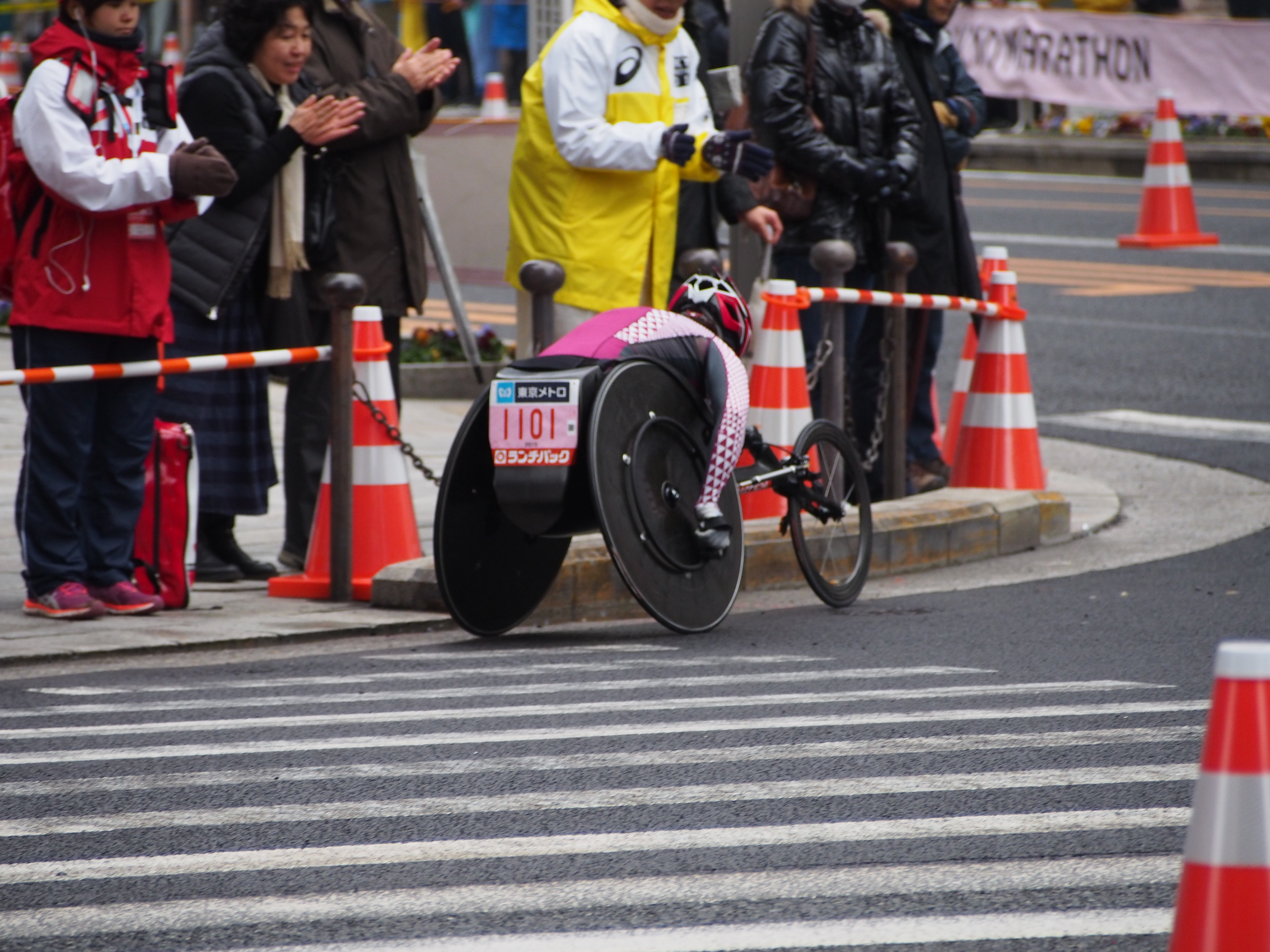 2015 Tokyo Marathon - Wakako Tsuchida women's wheelchair winner